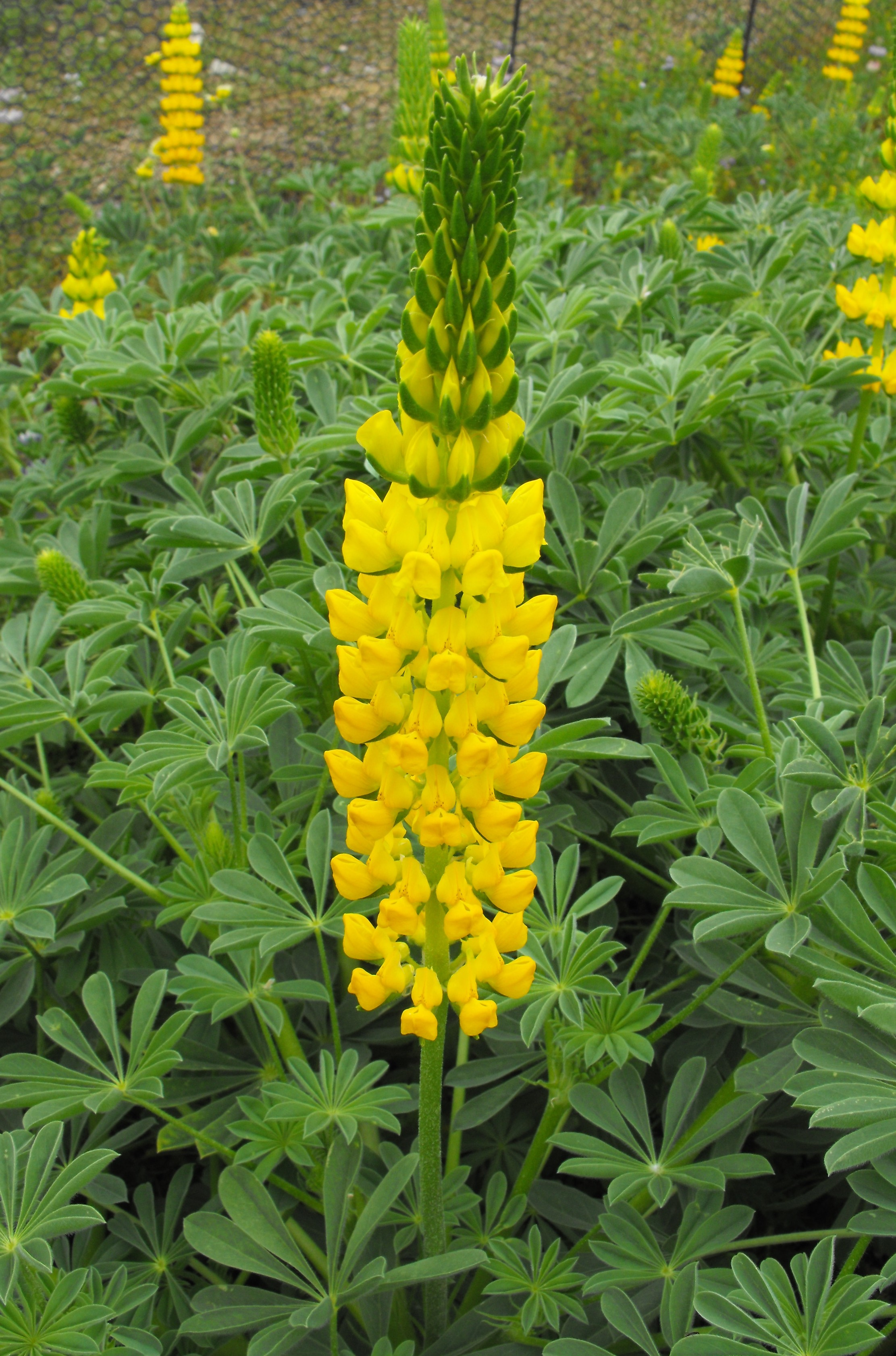 Yellow lupine, identified by sign as Lupinus densiflorus var. aureus at Rancho Santa Ana Botanic Gardens in Claremont, California, USA. It is now part of Lupinus microcarpus var. densiflorus apparently.